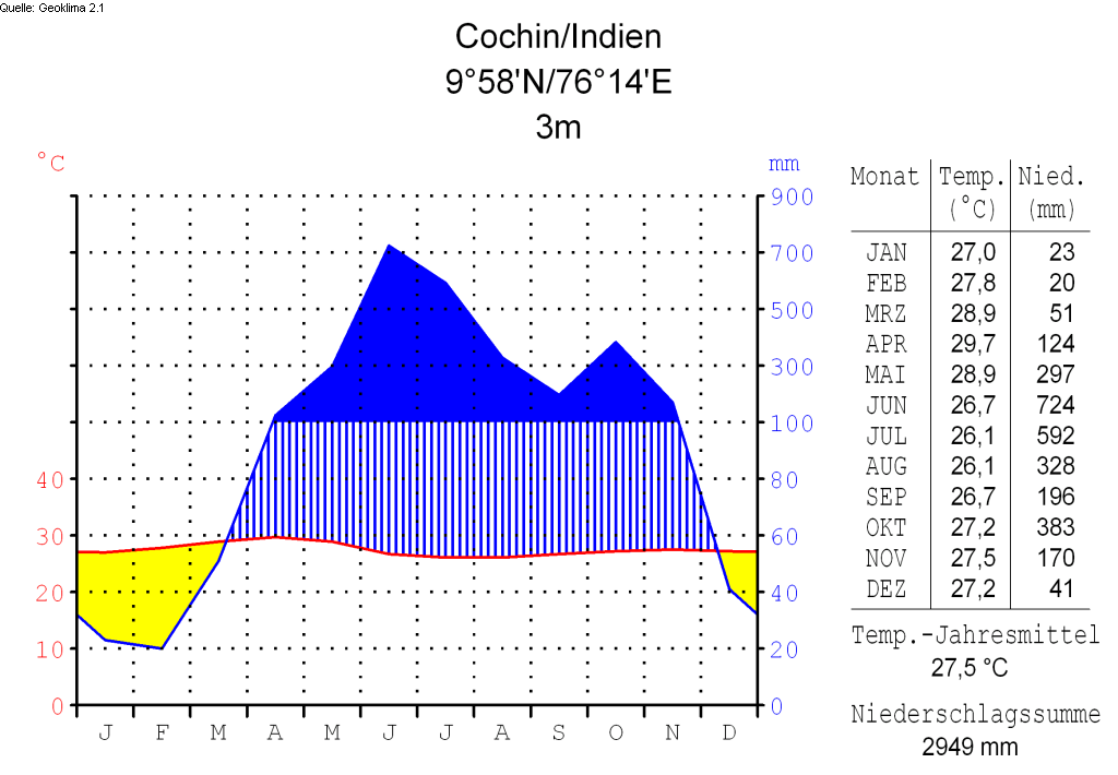 climate chart in the format by Walter and Lieth, metric, °Celsisus and millimeters, made with Geoklima 2.1